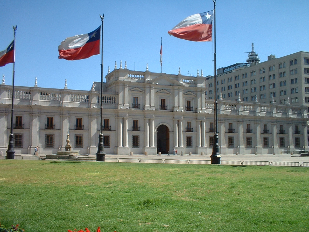 La Moneda, the palace of the president of Chile